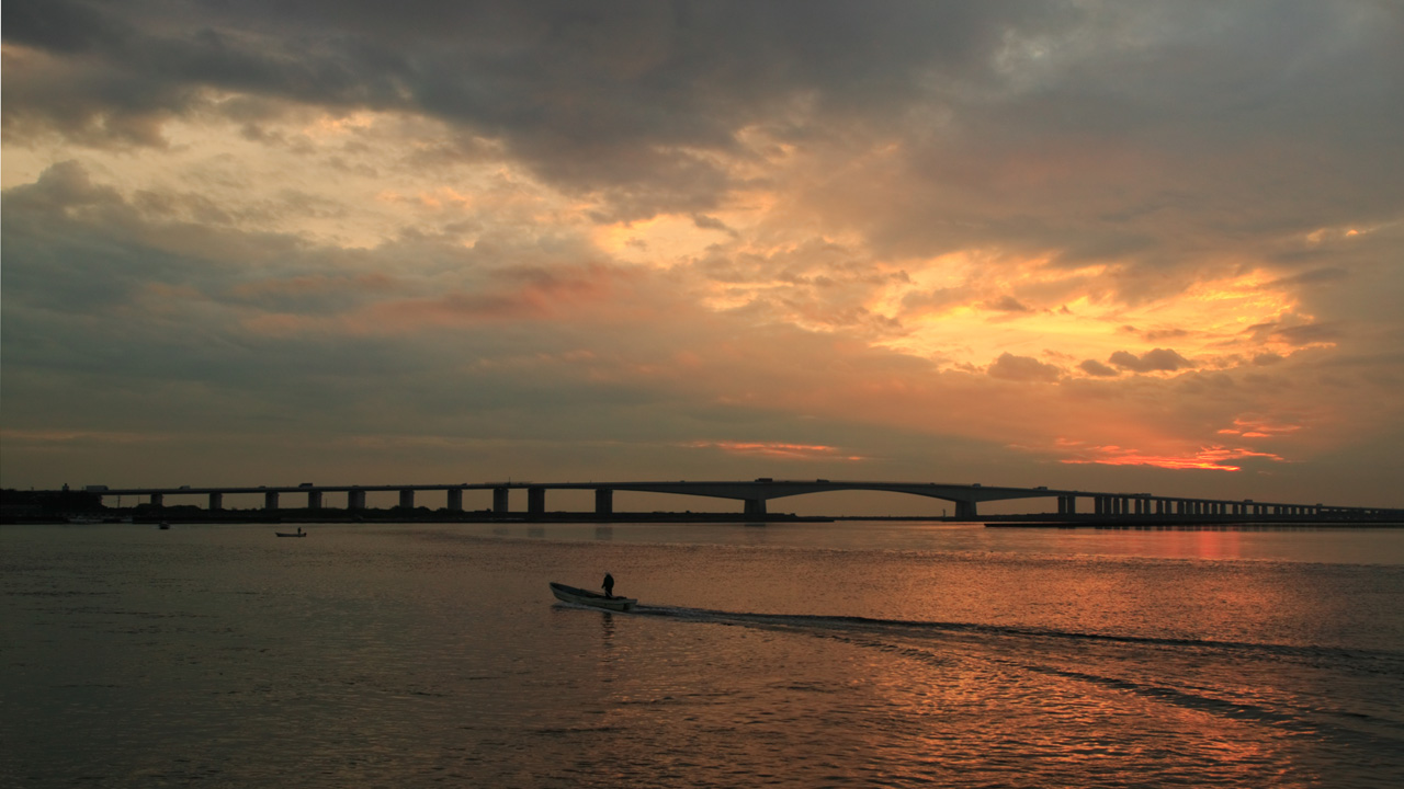 Hamana Ōhasi of Lake Hmana in Shizuoka Prefecture, Japan.